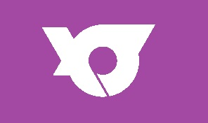 Flag of Yamanobe Yamagata